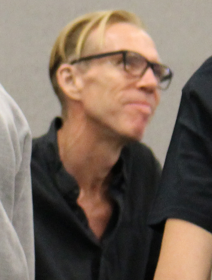 Richard Brake. Game of Thrones.